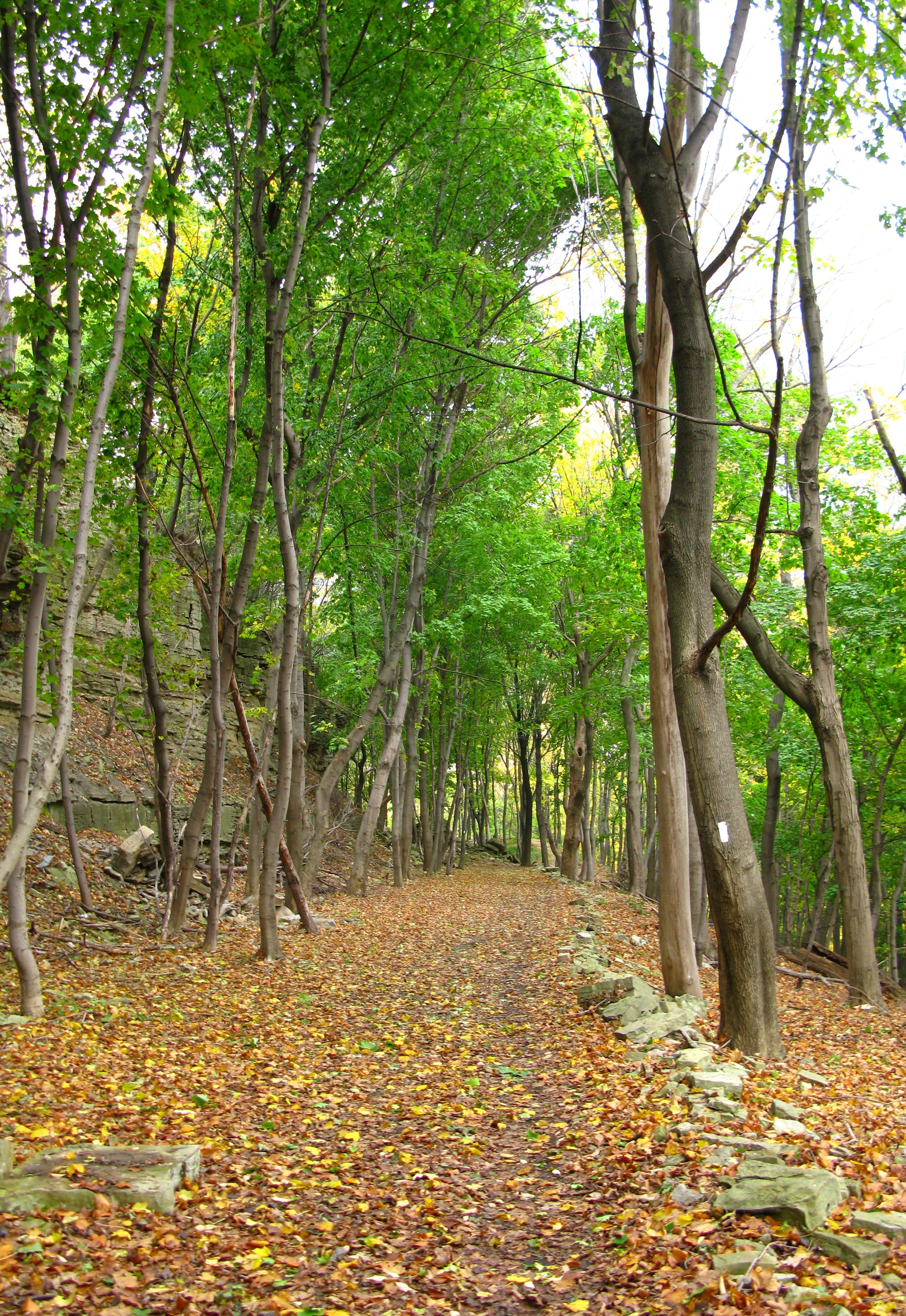 Bruce Trail in Hamilton, Ontario, heading eastwards (towards Tobermory)